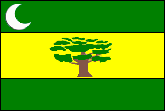 Flags of the city of Acaiaca, Minas Gerais, Brazil.